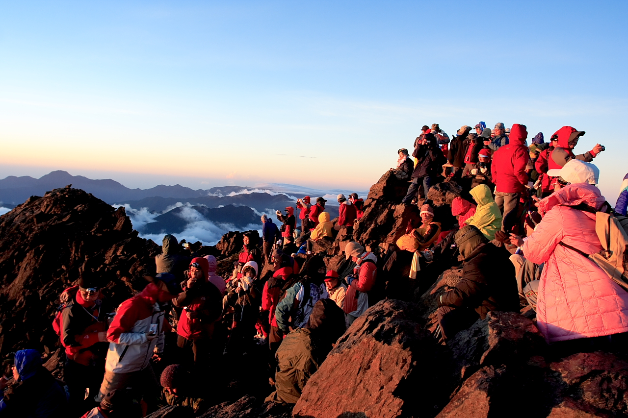 On Top of the World. 客家語/Hak-kâ-ngî: Ngiu̍k-Sân táng-thèu.